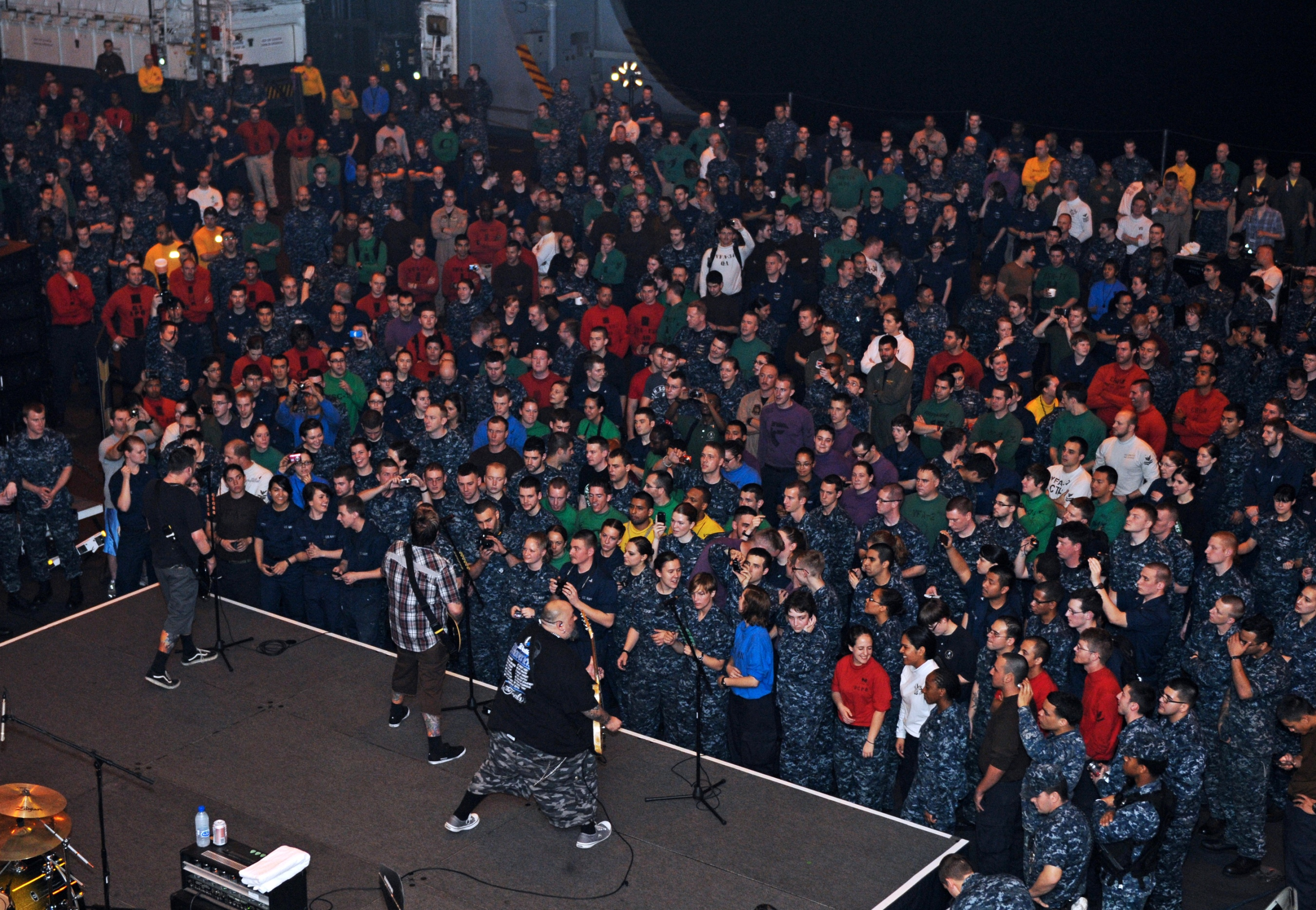 Grammy Award-nominated punk rock band Bowling for Soup performs for Sailors in the hangar bay of the Nimitz-class aircraft carrier USS Abraham Lincoln (CVN 72). The band toured the ship, met with Sailors and performed for the crew as part of a tour sponsored by Navy Entertainment. Abraham Lincoln is deployed to the U.S. 5th Fleet area of responsibility conducting maritime security operations, theater security cooperation efforts and support missions as part of Operation Enduring Freedom.